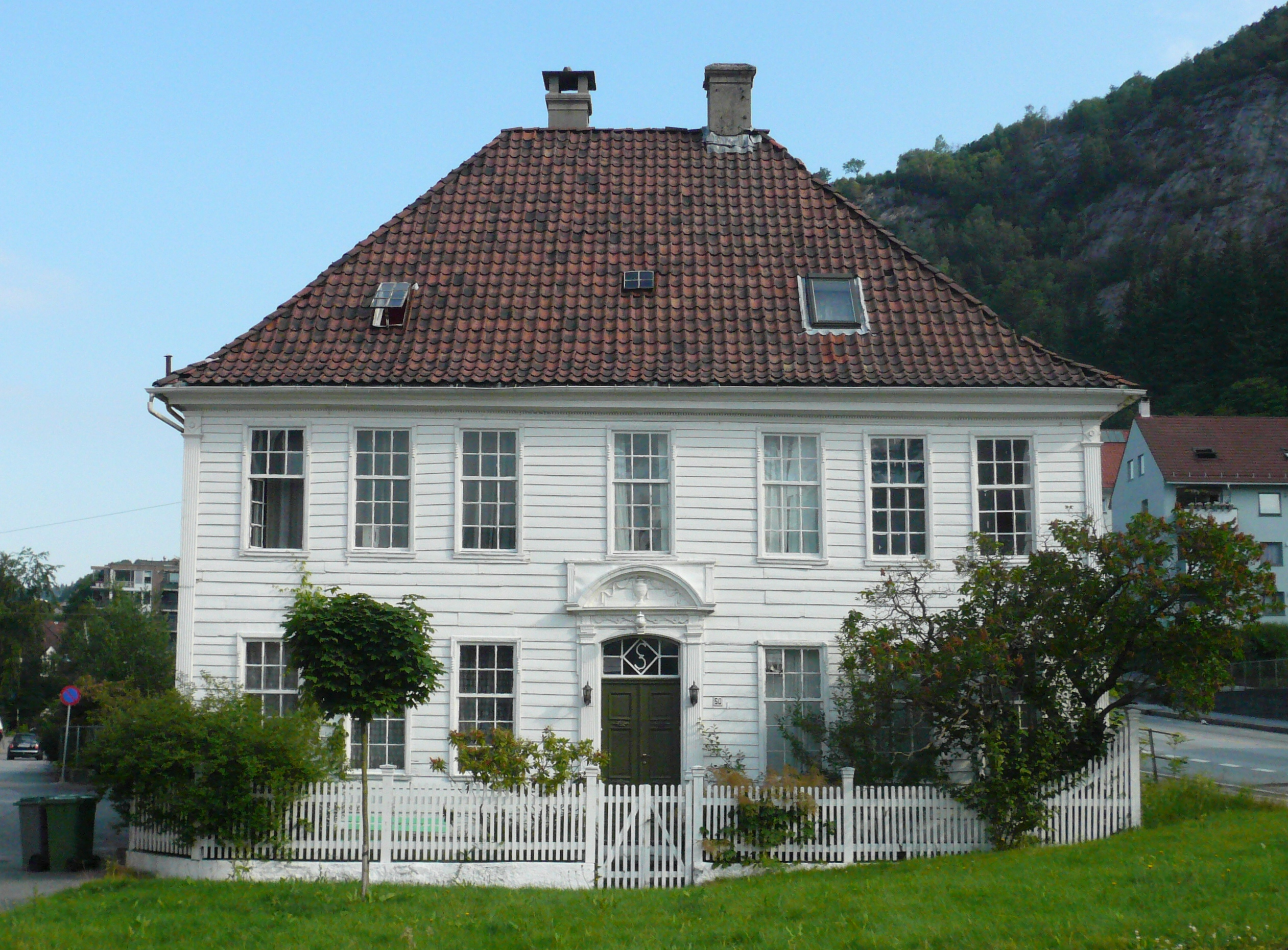 Mesterhuset, Stoltz' reperbane, Sandviken, Bergen, Norway